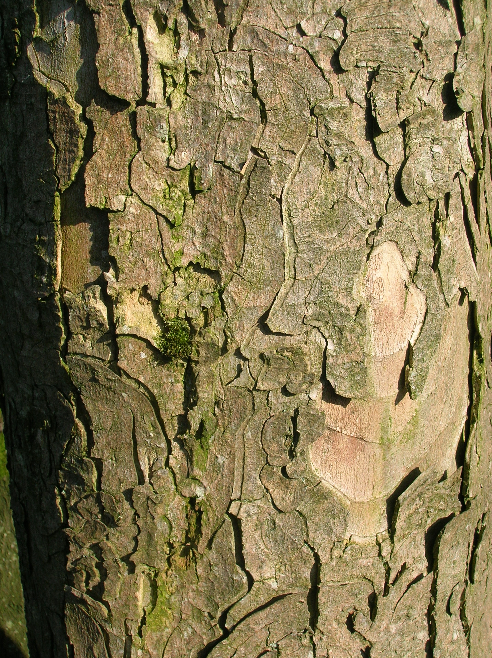 Typical appearance of bark of old Sycamore maple trees (Acer pseudoplatanus)